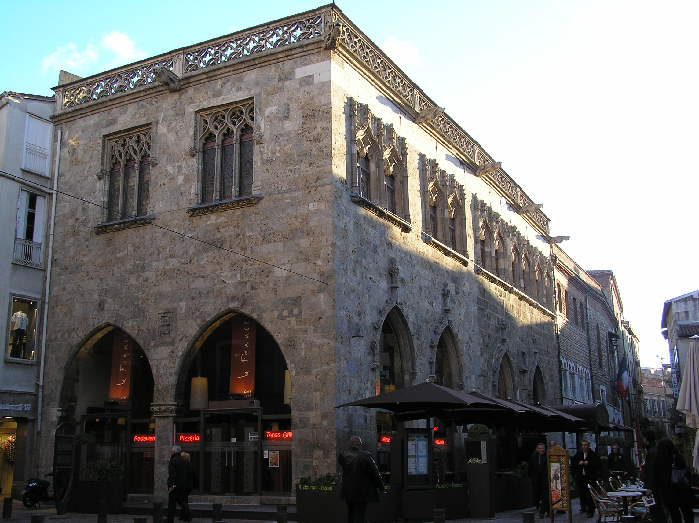 Perpignan, Loge de mer, (XIVth and XVIth centuries).